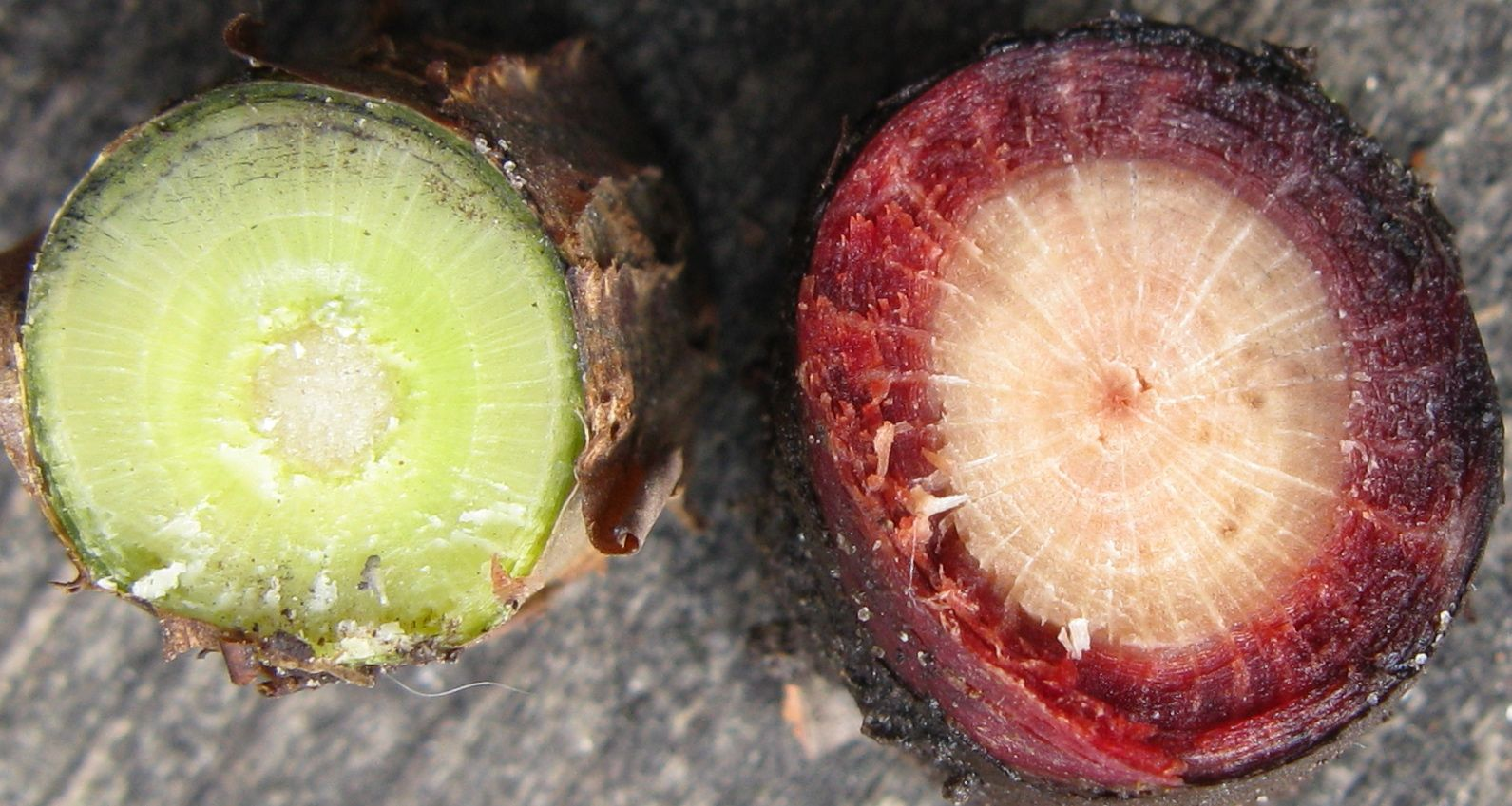 Cross sections of stem (green, left) and root (red, right), freshly cut.